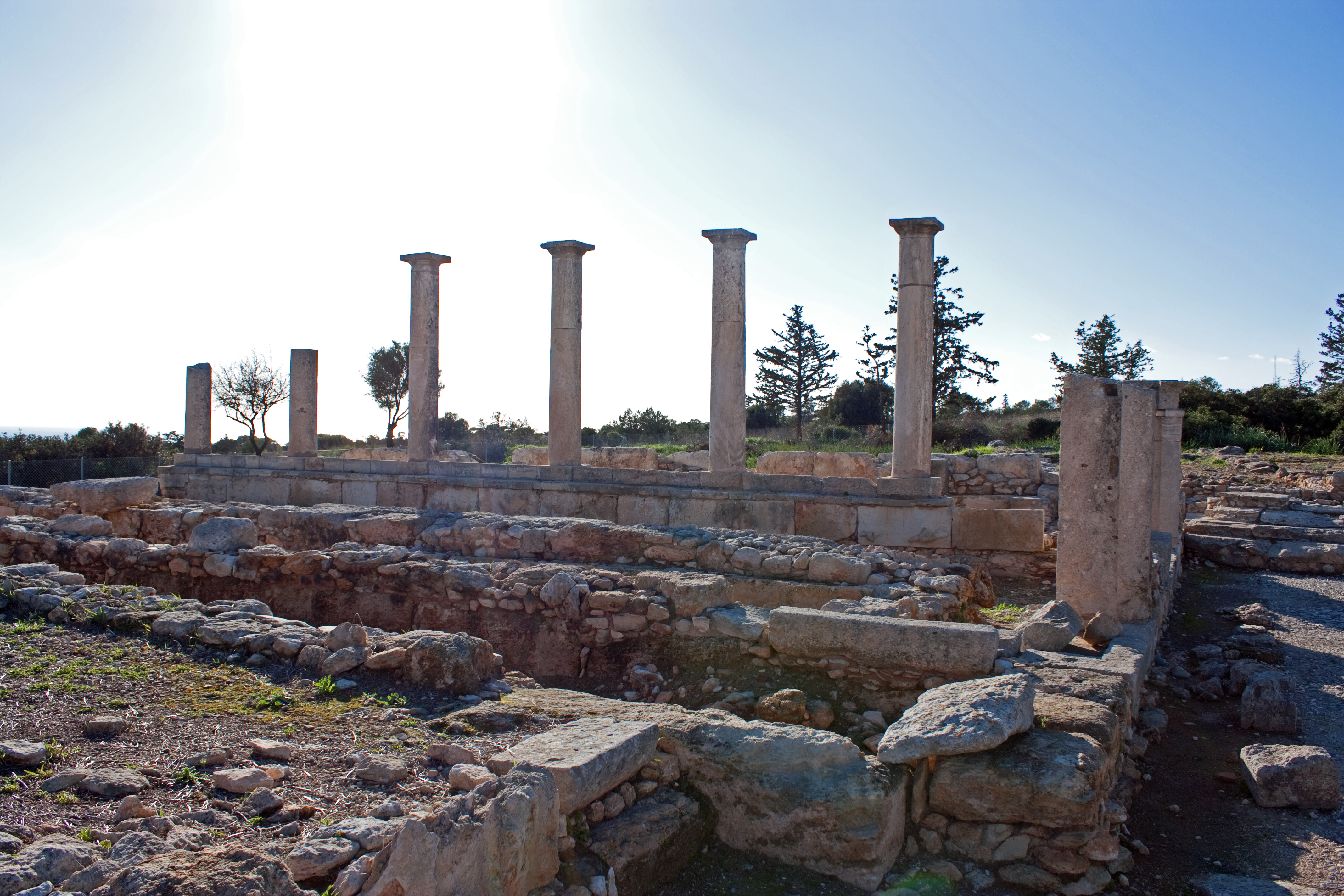 Ruins in the southeast area of the Sanctuary of Apollo Hylates in Kourion, Cyprus.